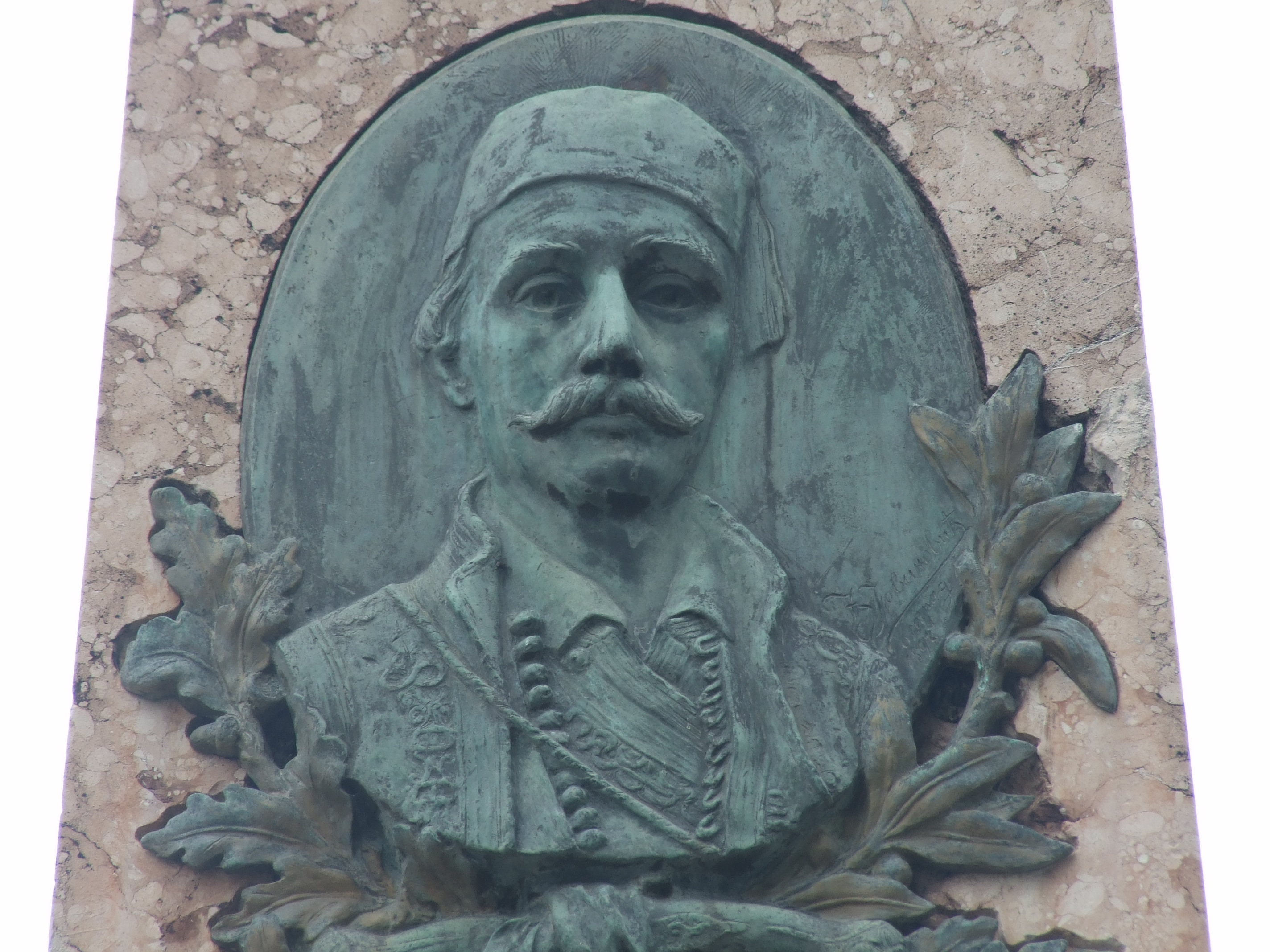 Monument to Hajduk Veljko Petrovic in Negotin, built 1892. Srpski (latinica): Spomenik Hajduk Veljku Petrovicu u Negotinu podignut 1892, detalj